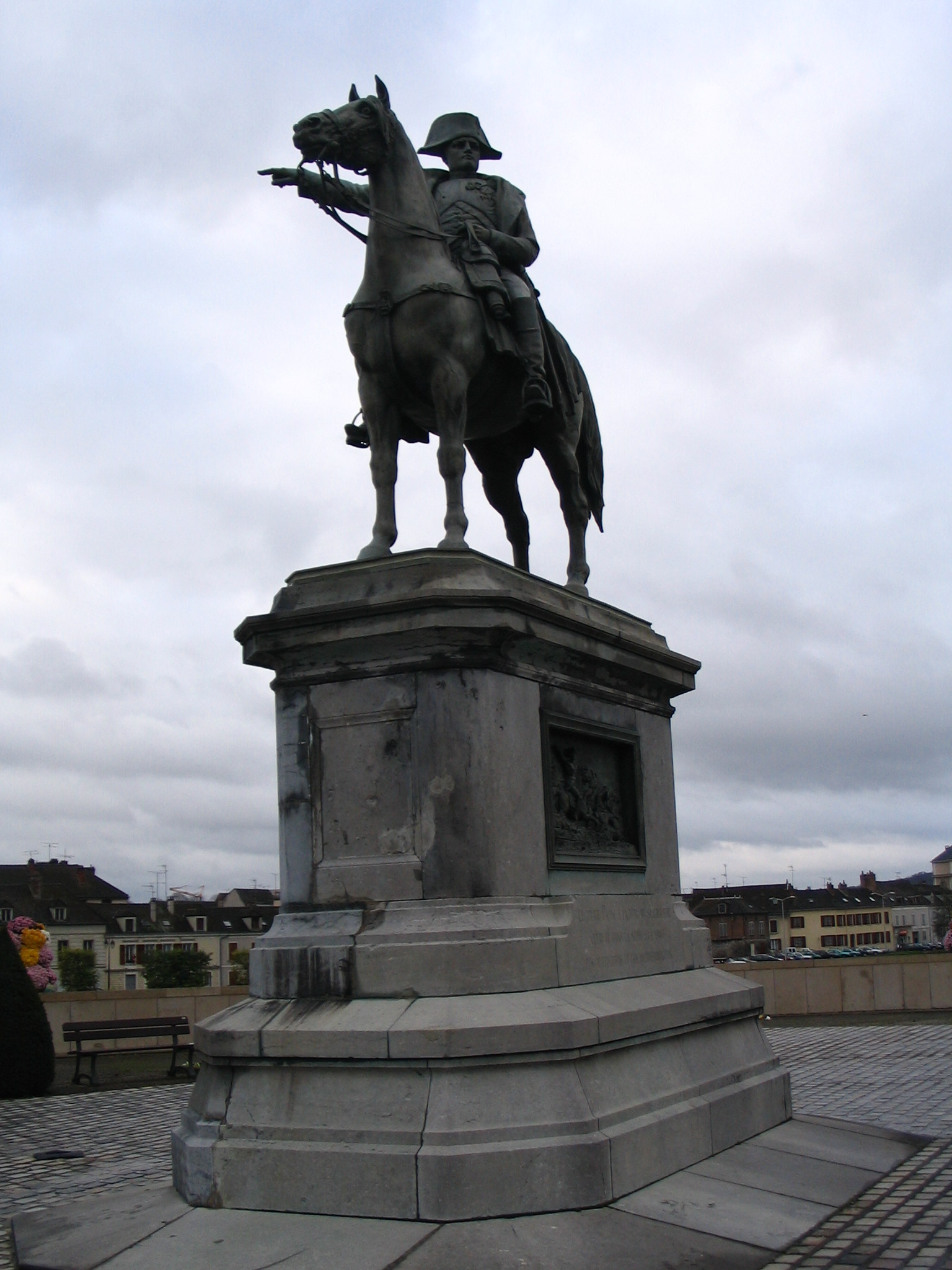 Napoleon Statue in Montereau-Fault-Yonne, Seine-et-Marne, France.